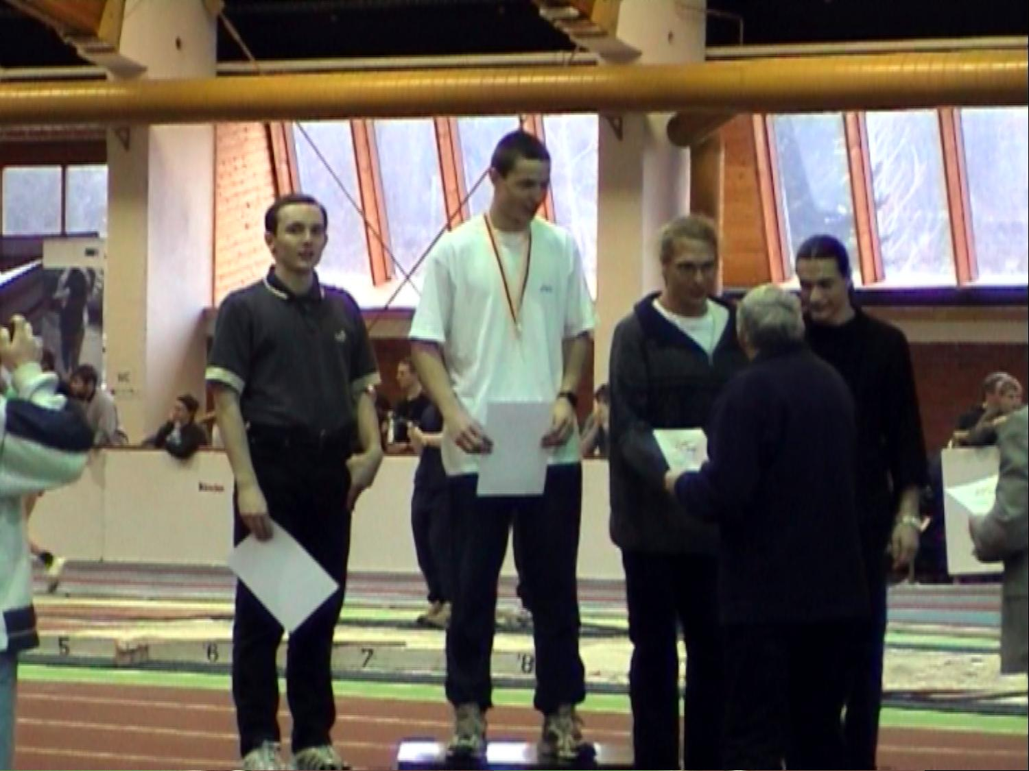 Winners of 60 metres, Prague junior championship (Stromovka); two 3rd places